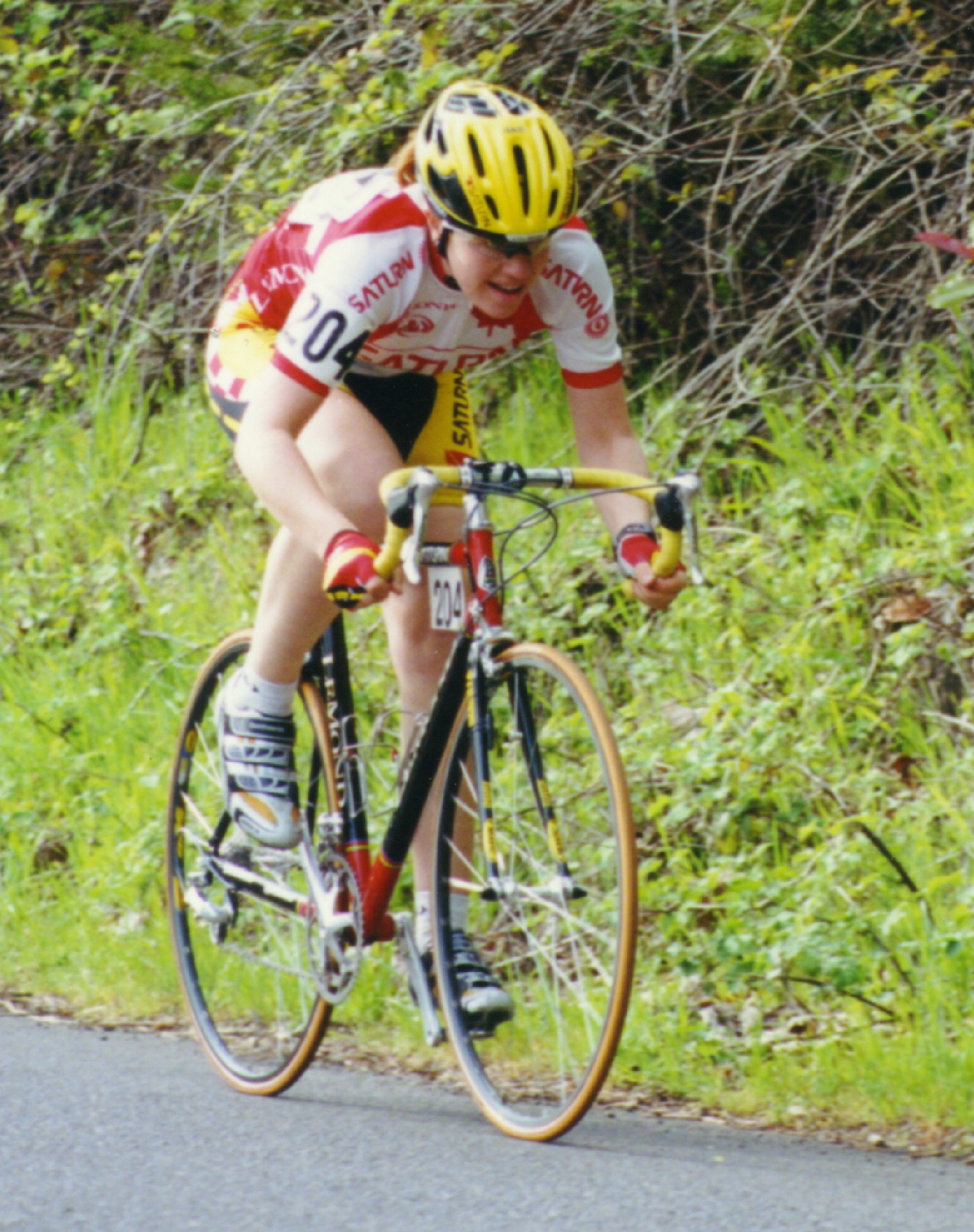 Clara Hughes halfway up the hill at the Prologue Skinner's Butte Time Trial (2000 Tour of Willamette).